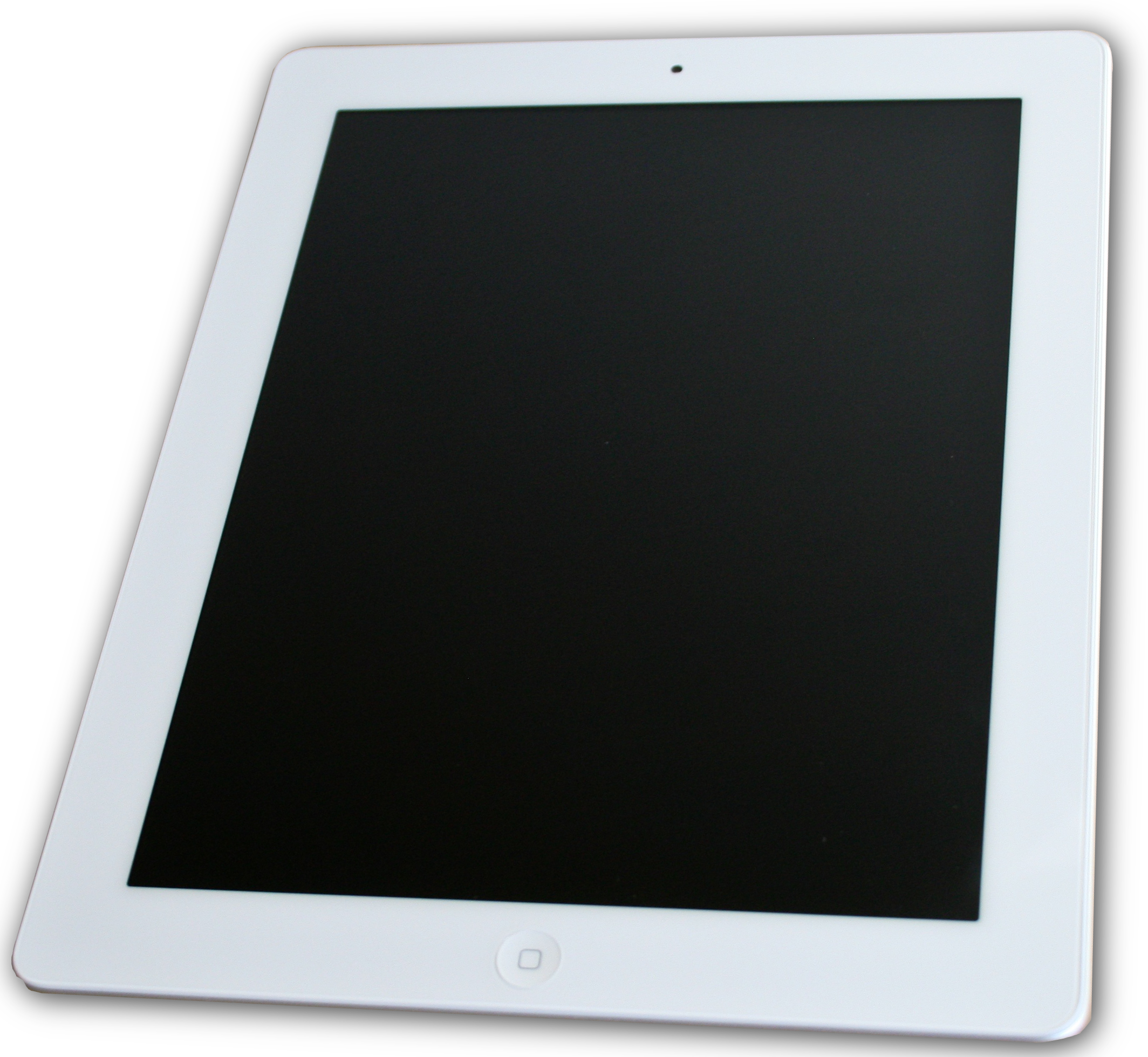 A picture of a white iPad 2.